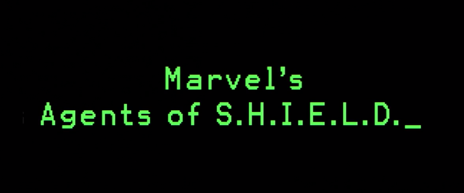 Text logo seen from the title card for episode 707 of Agents of S.H.I.E.L.D., "The Totally Excellent Adventures of Mack and The D".